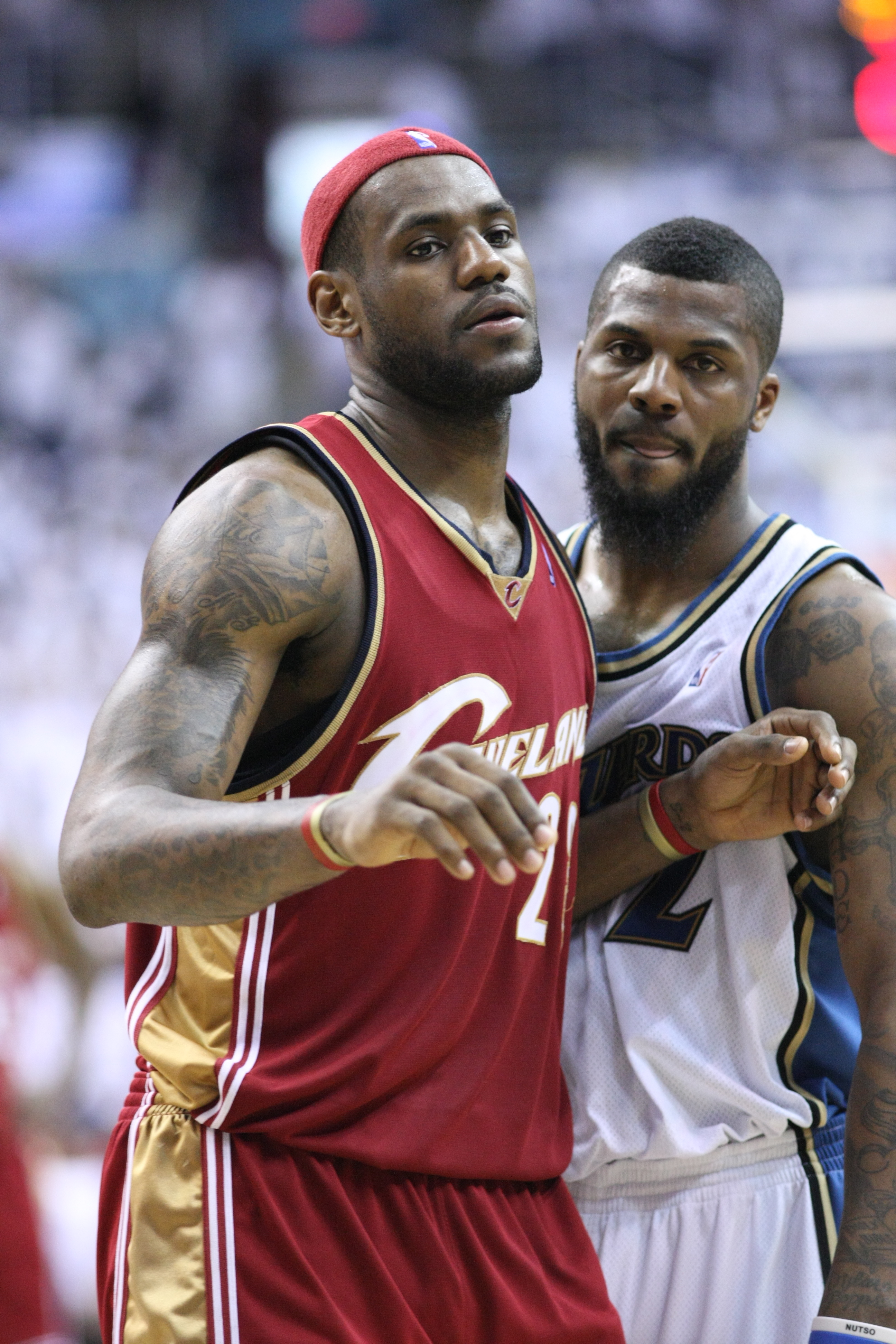 LeBron James playing with the Cleveland Cavaliers